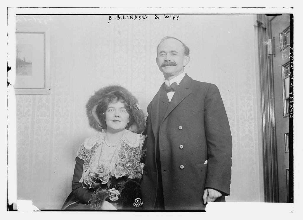 Benjamin Barr Lindsey and Henrietta Lindsey circa 1912